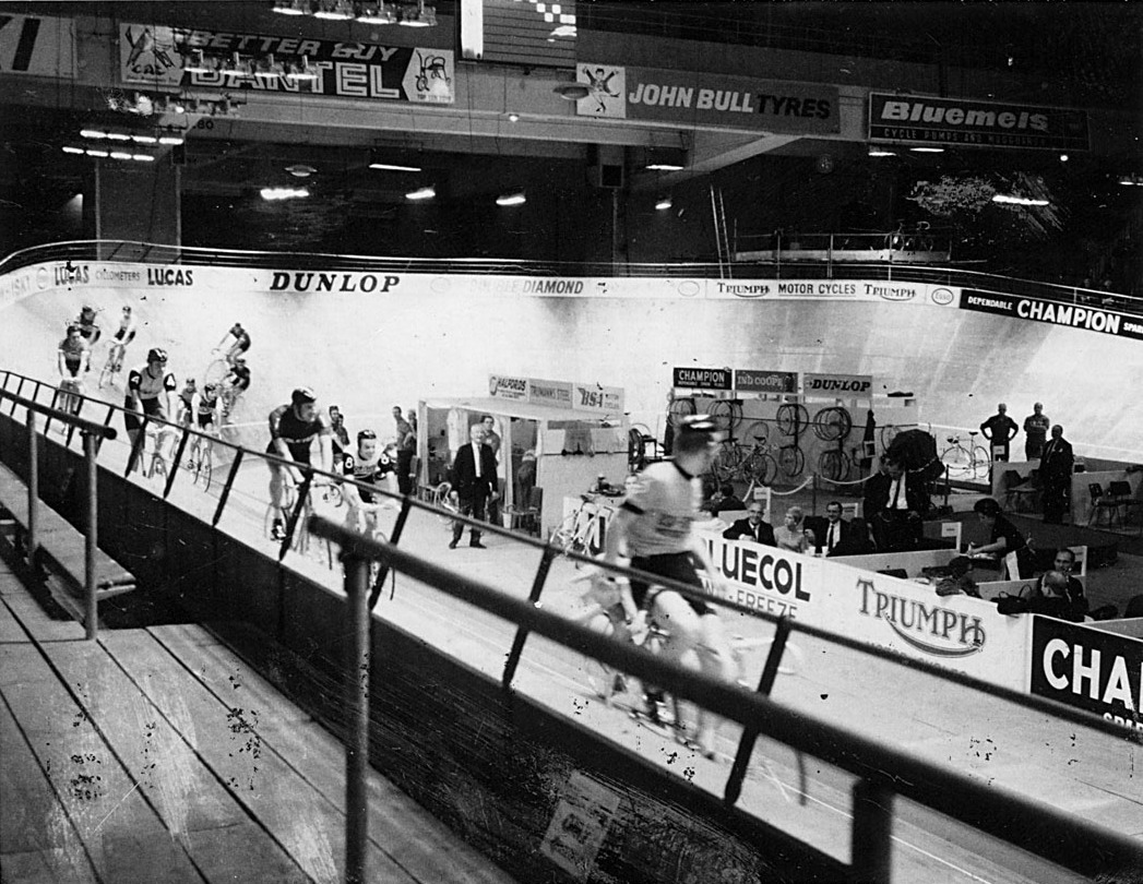 One of the surviving Polaroid prints from a visit to Earls Court, London for the Six Day Bike Race in 1967.